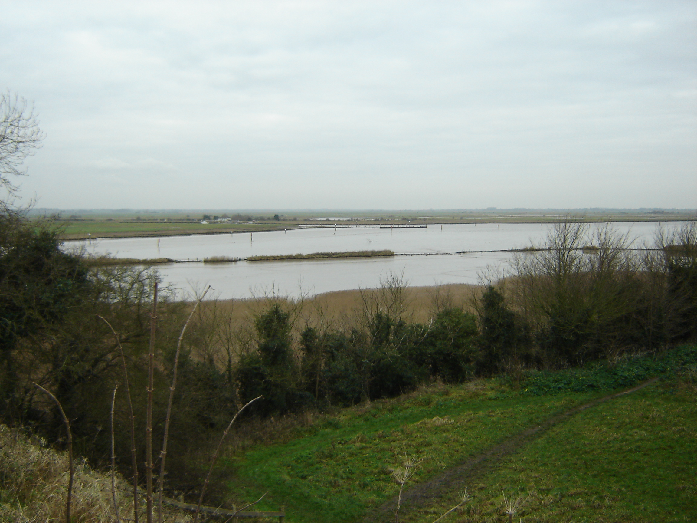 Taken by Ian Martin on Jan 15th 2007 (View from Burgh Castle) Breydon Water at its western extremity, here it splits into the Rivers Yare and Waveney